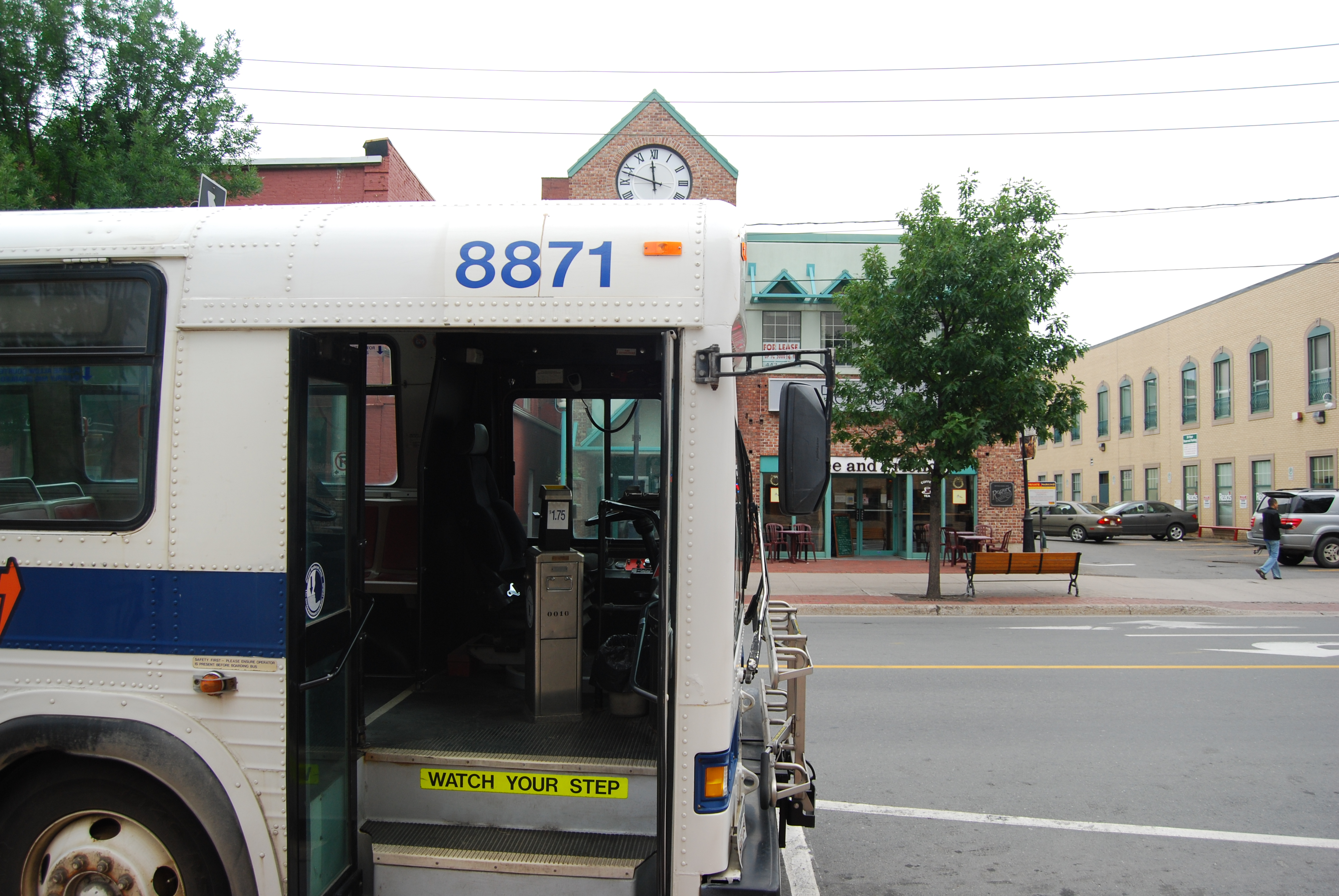 I, Myke Waddy took this photo, Downtown Fredericton, New Brunswick Canada.